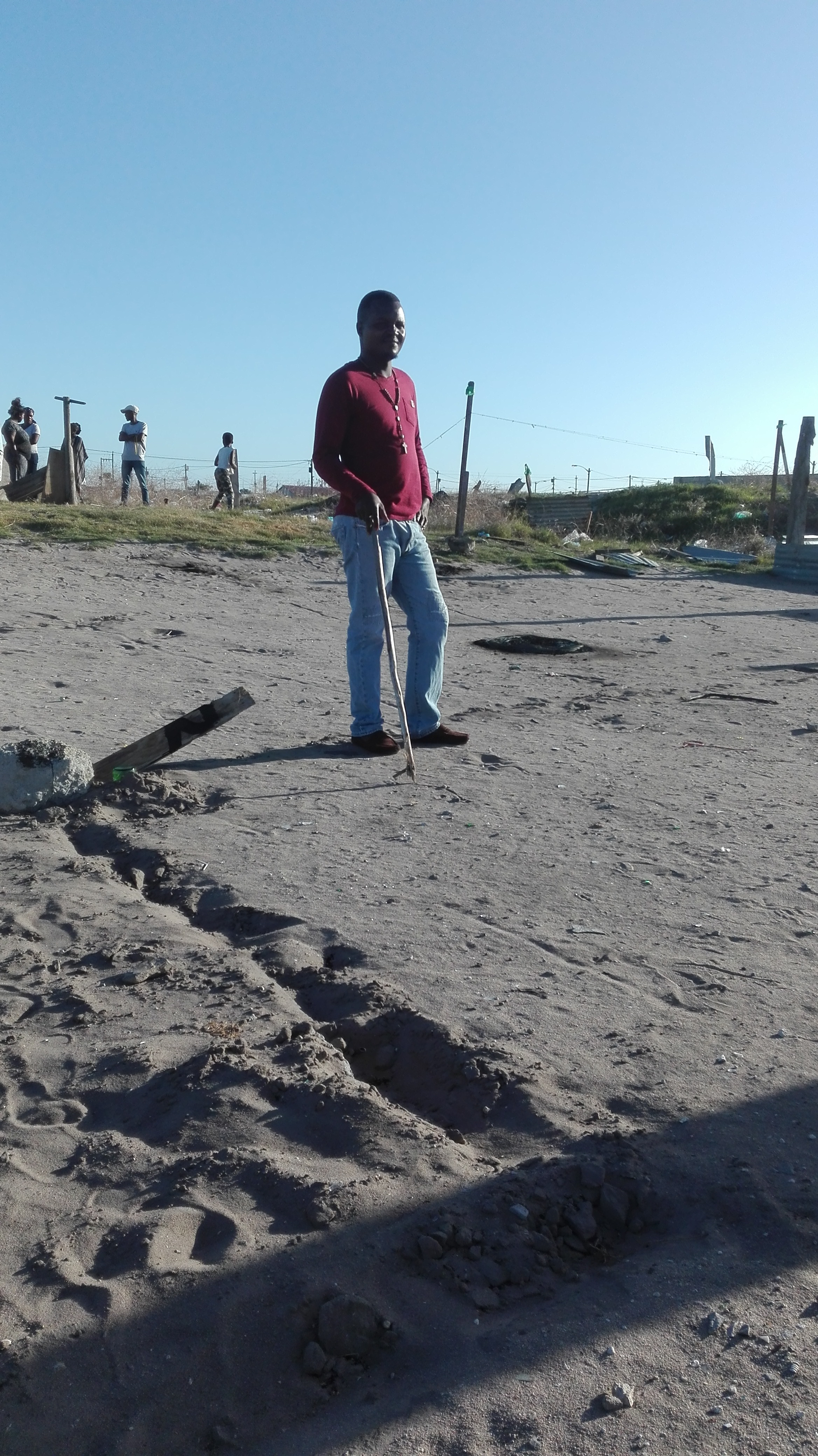 Illegal evictions in Philipi, Cape Town of landless residents, while the State of the Nation address is happening and our new President is addressing the nation, the people on the fighting for a place to sleep.